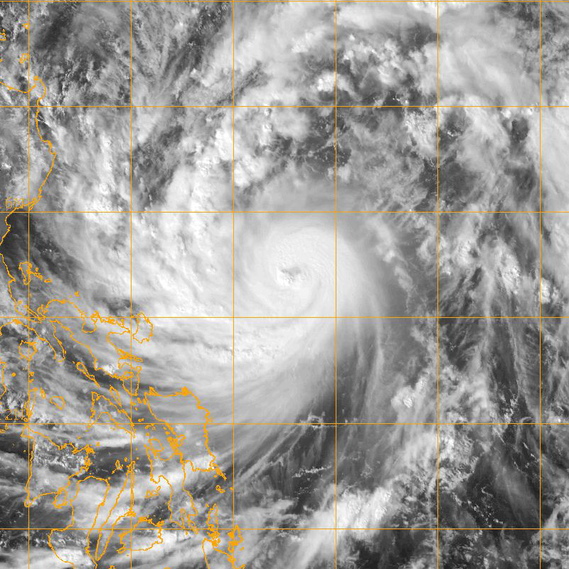 Typhoon Cimaron east of the Philippines on October 28, 2006.